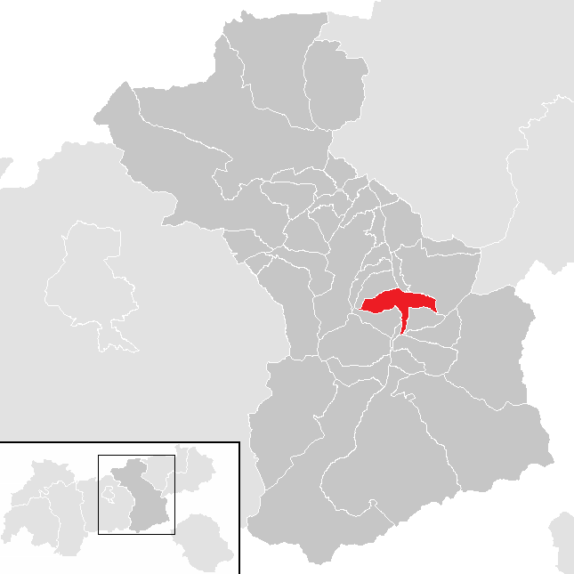 District Schwaz